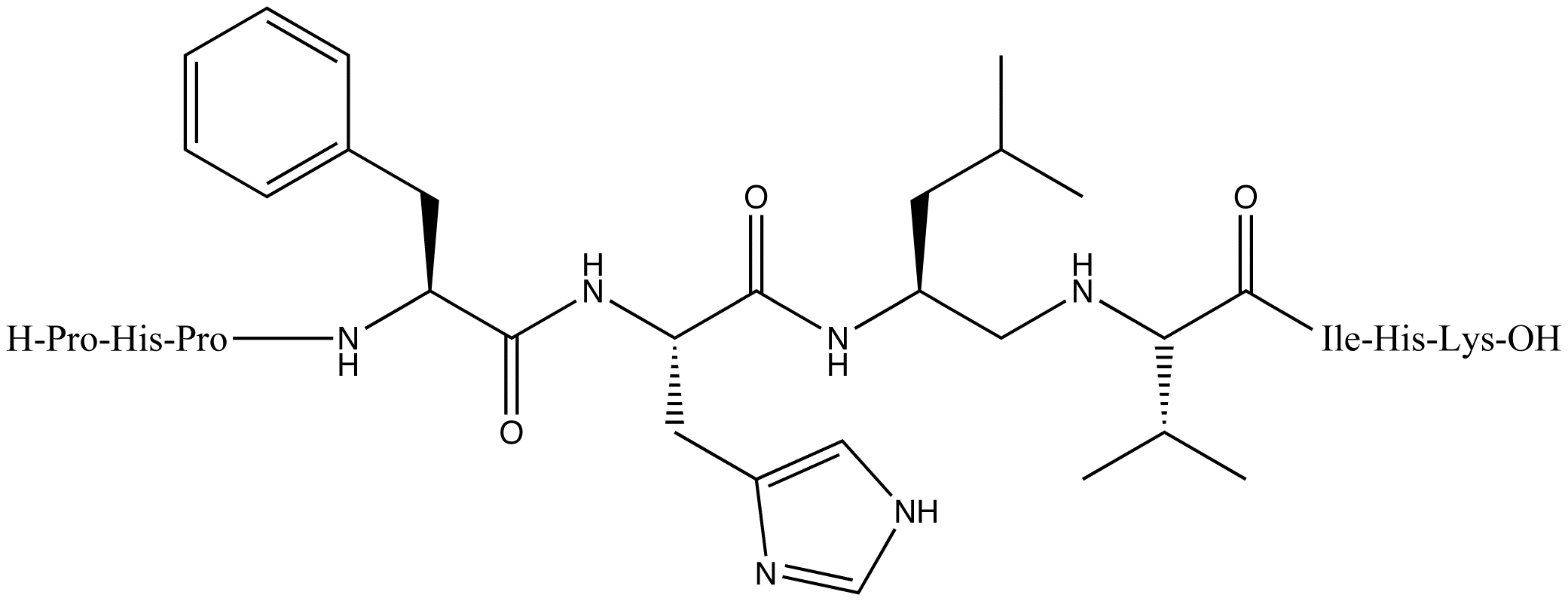 Skeletal formula of H-142. Created using CS ChemDraw Ultra.